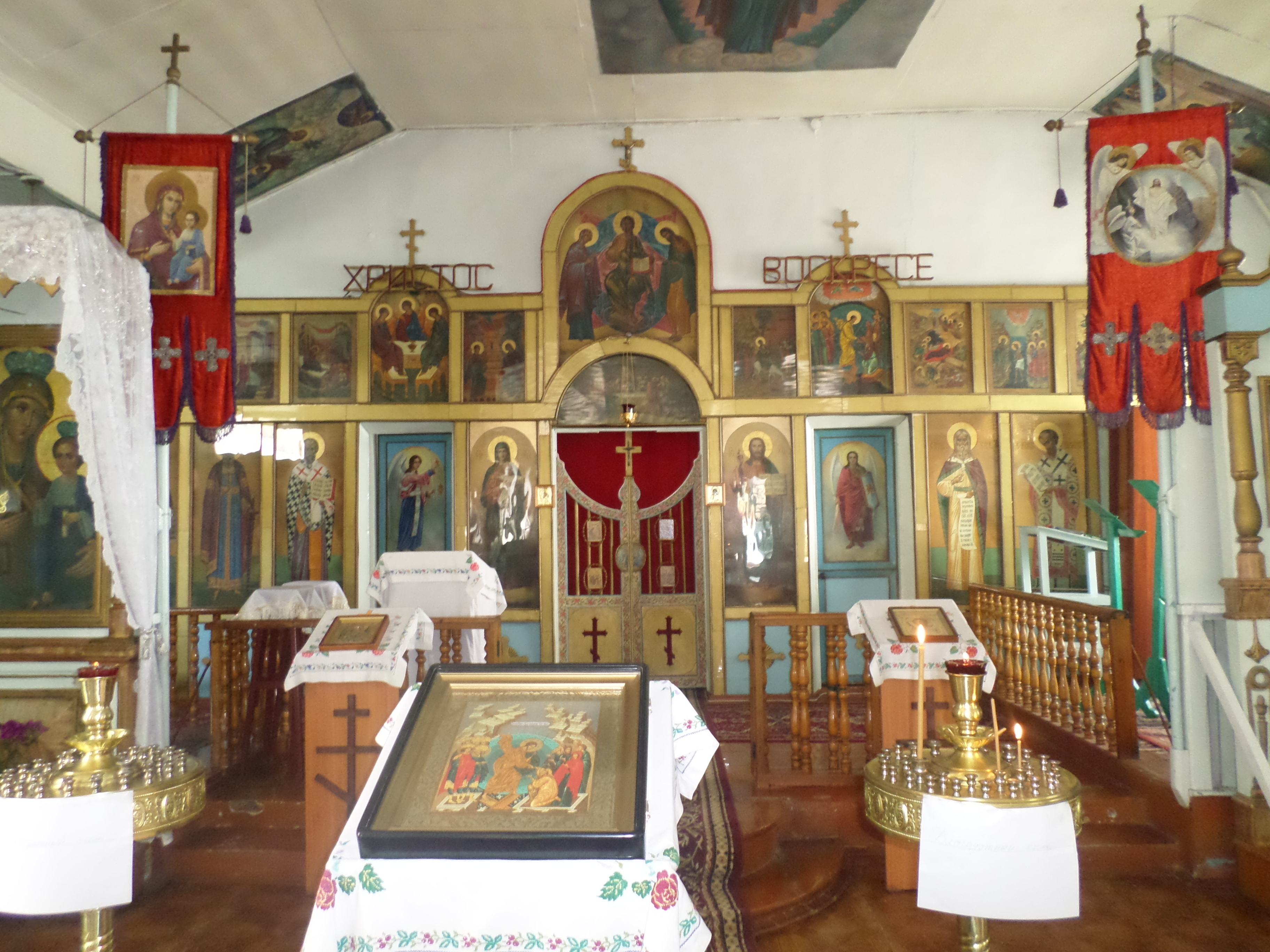 Church all Saints in Andijan